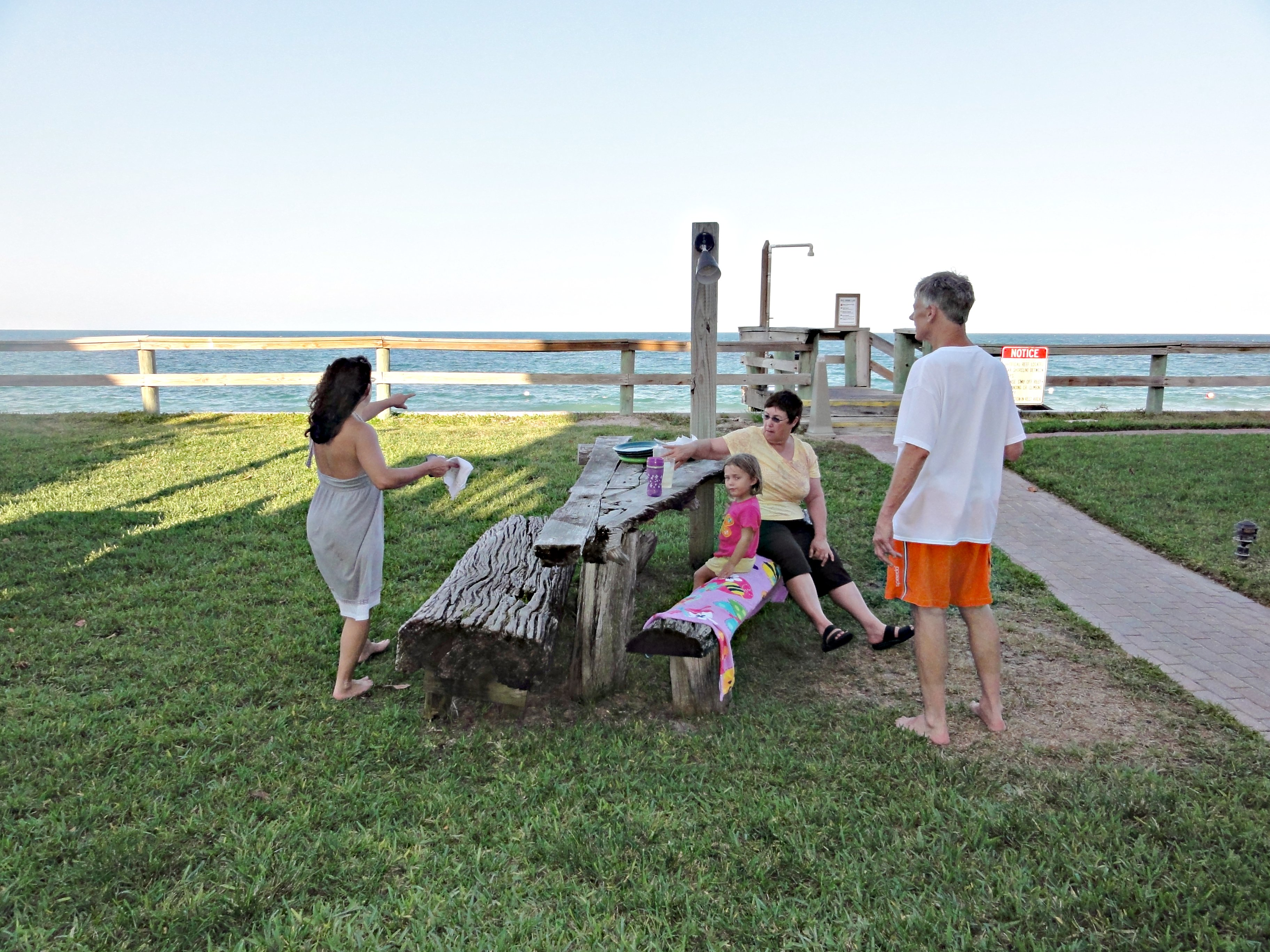 Picnic, Vero Beach, Florida